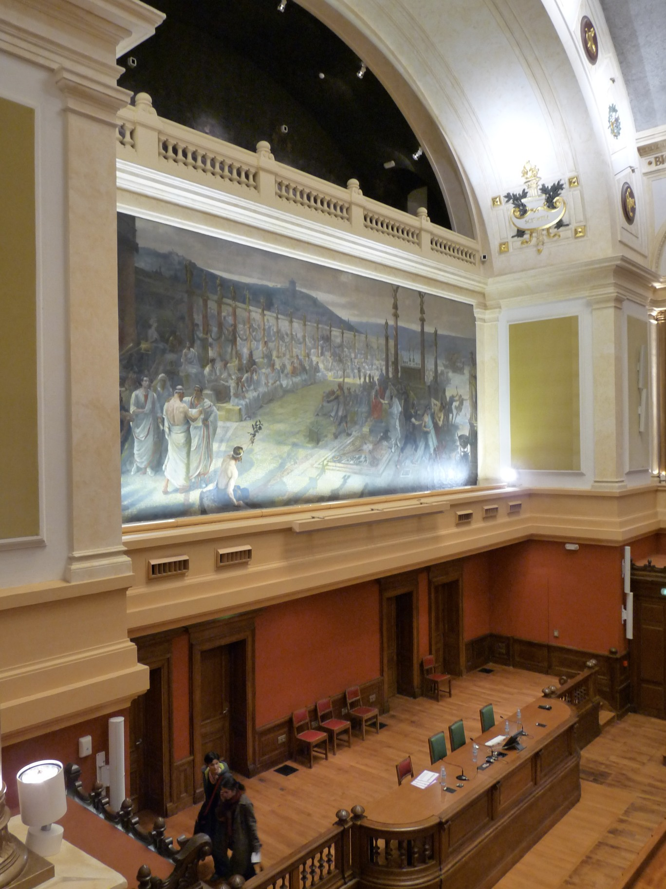 The "Grand amphithéâtre" of Lyon 2 University